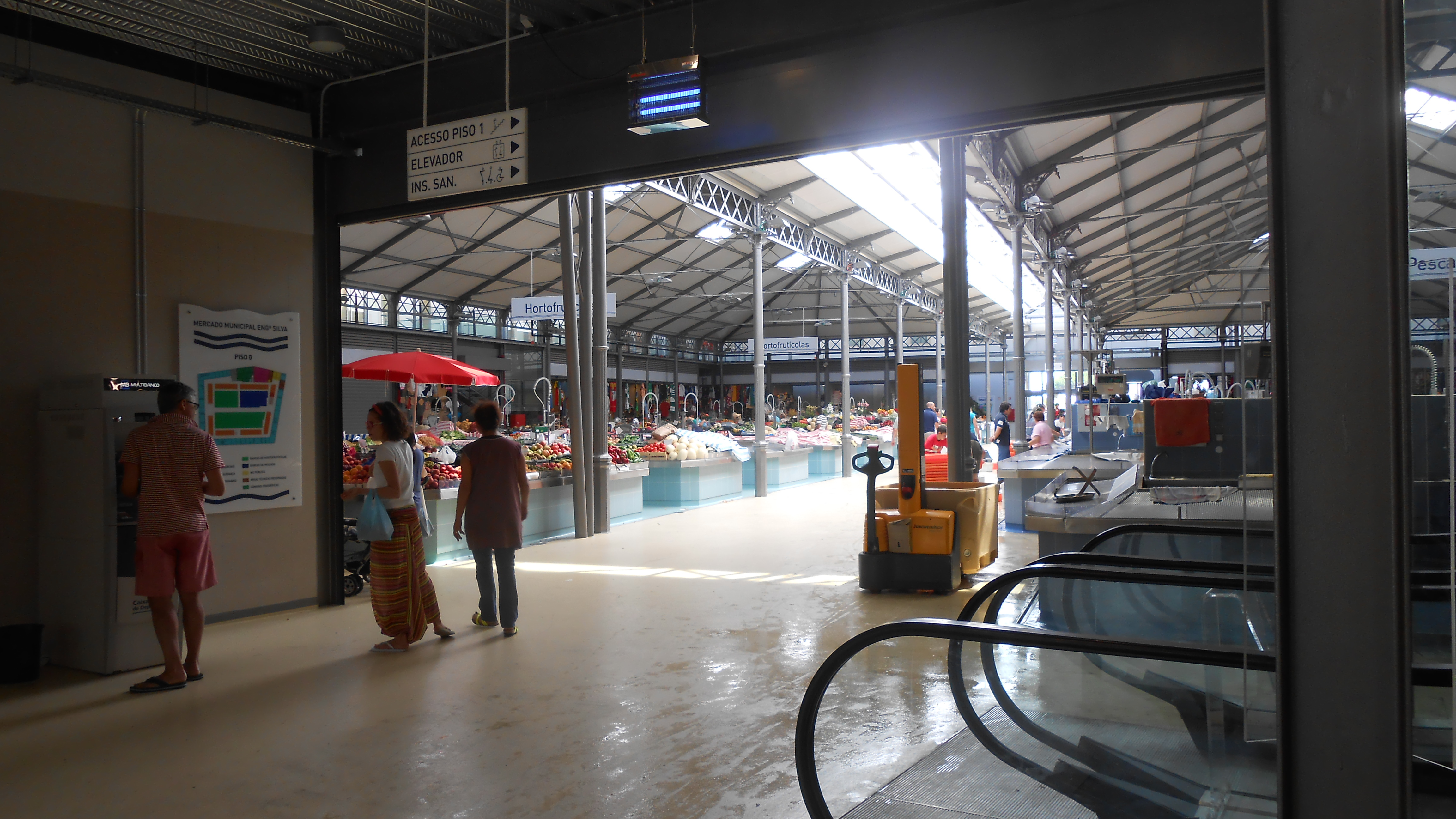 Inside the market hall in Figueira da Foz, district of Coimbra, Portugal